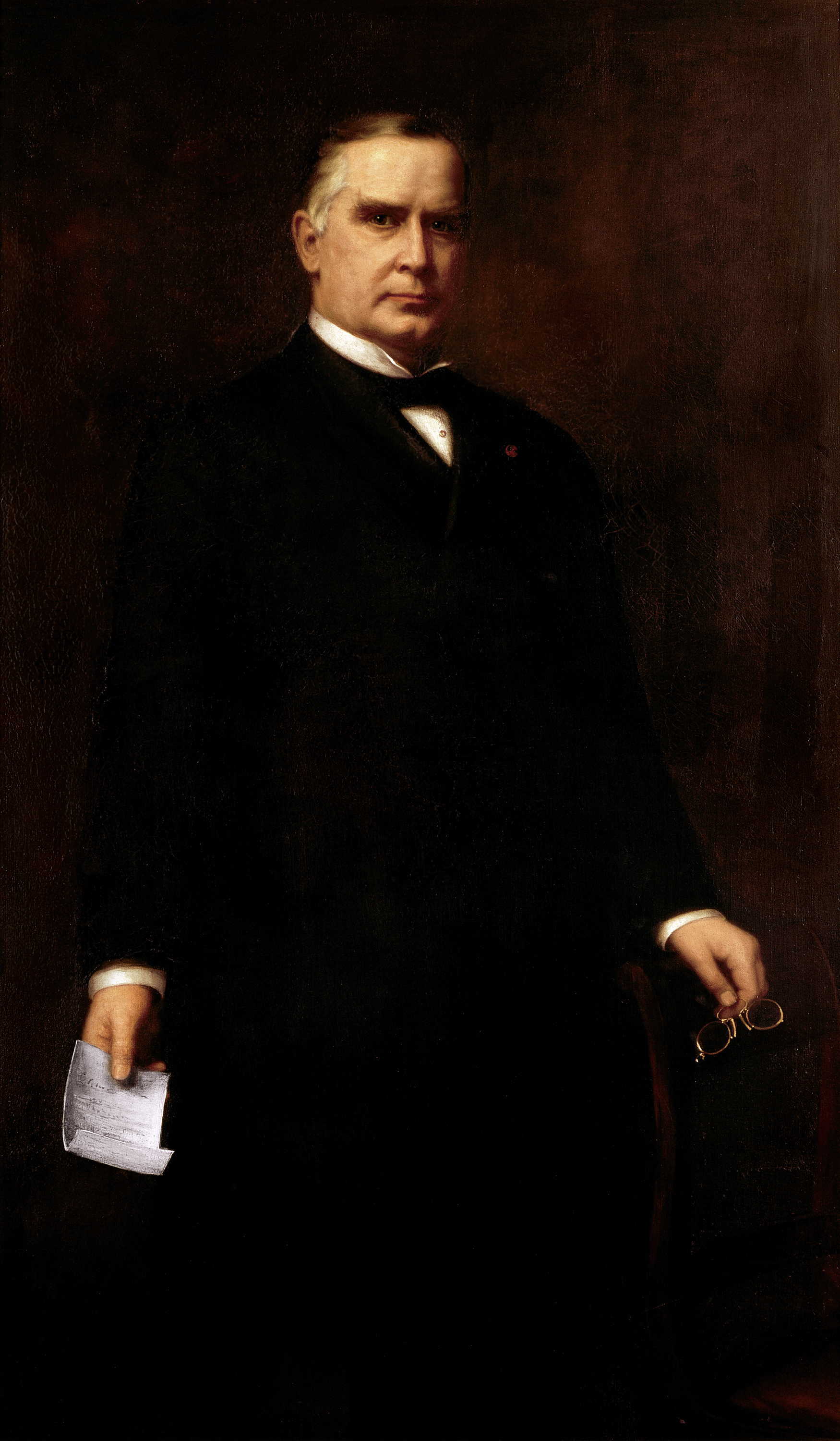 The official Presidential portrait of William McKinley